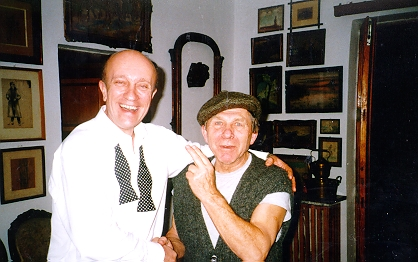 Polish engineer and academic Adam Skorek and Polish stage and film actor Wojciech Siemion.